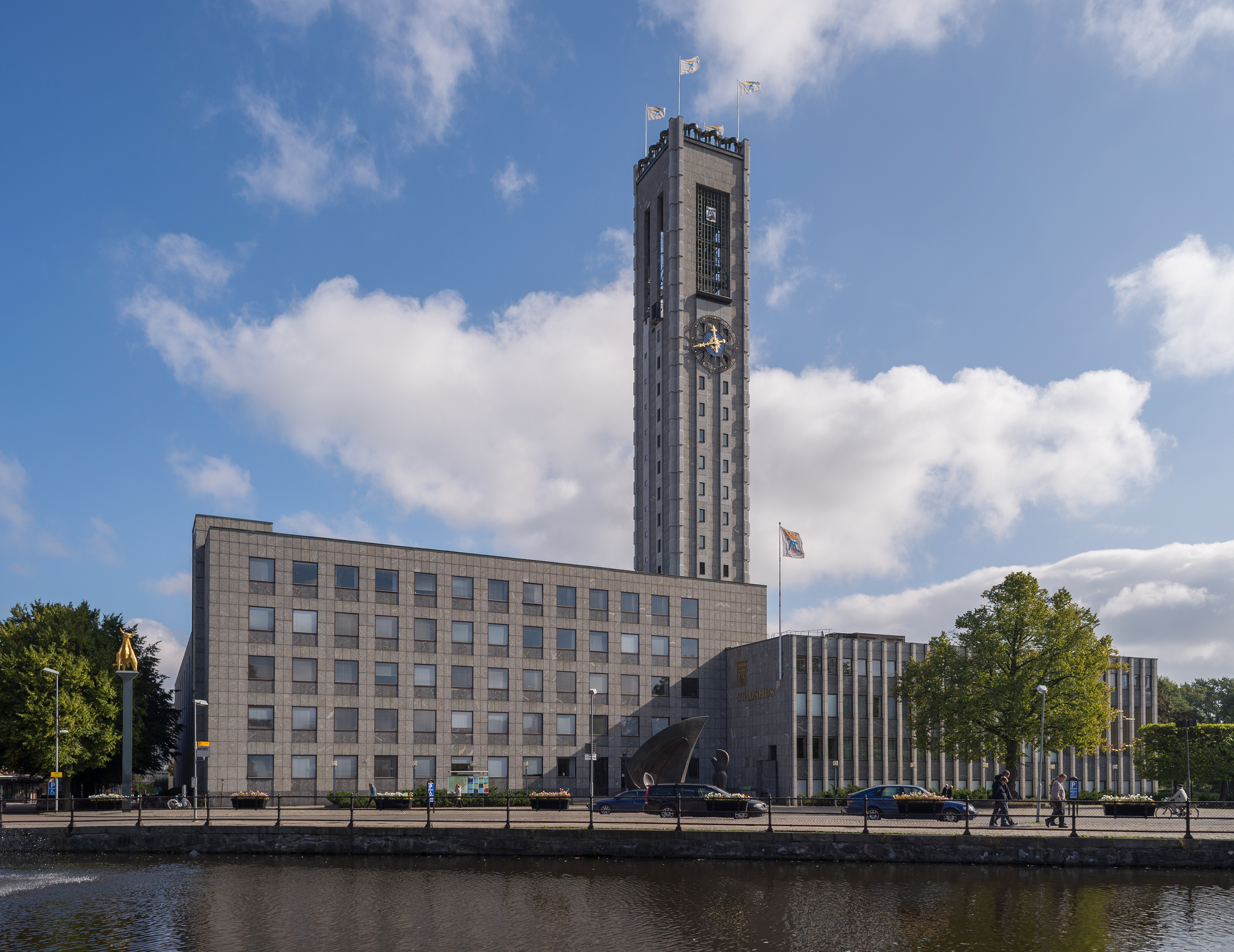 Västerås stadshus (city hall). Västerås, Sweden.